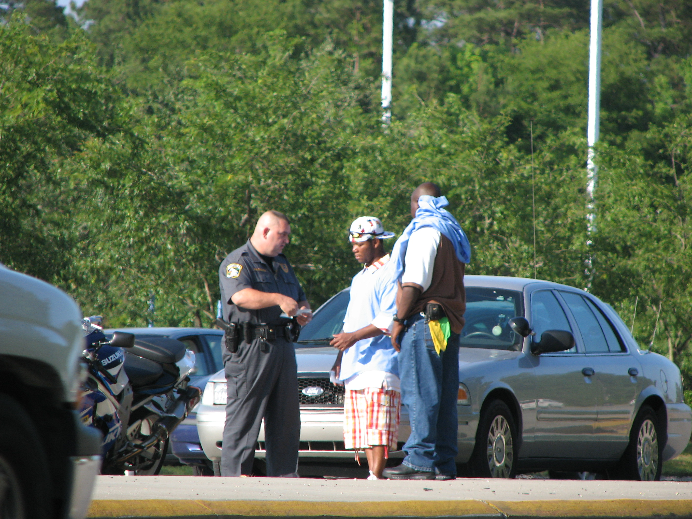 nice little bit of police harassment